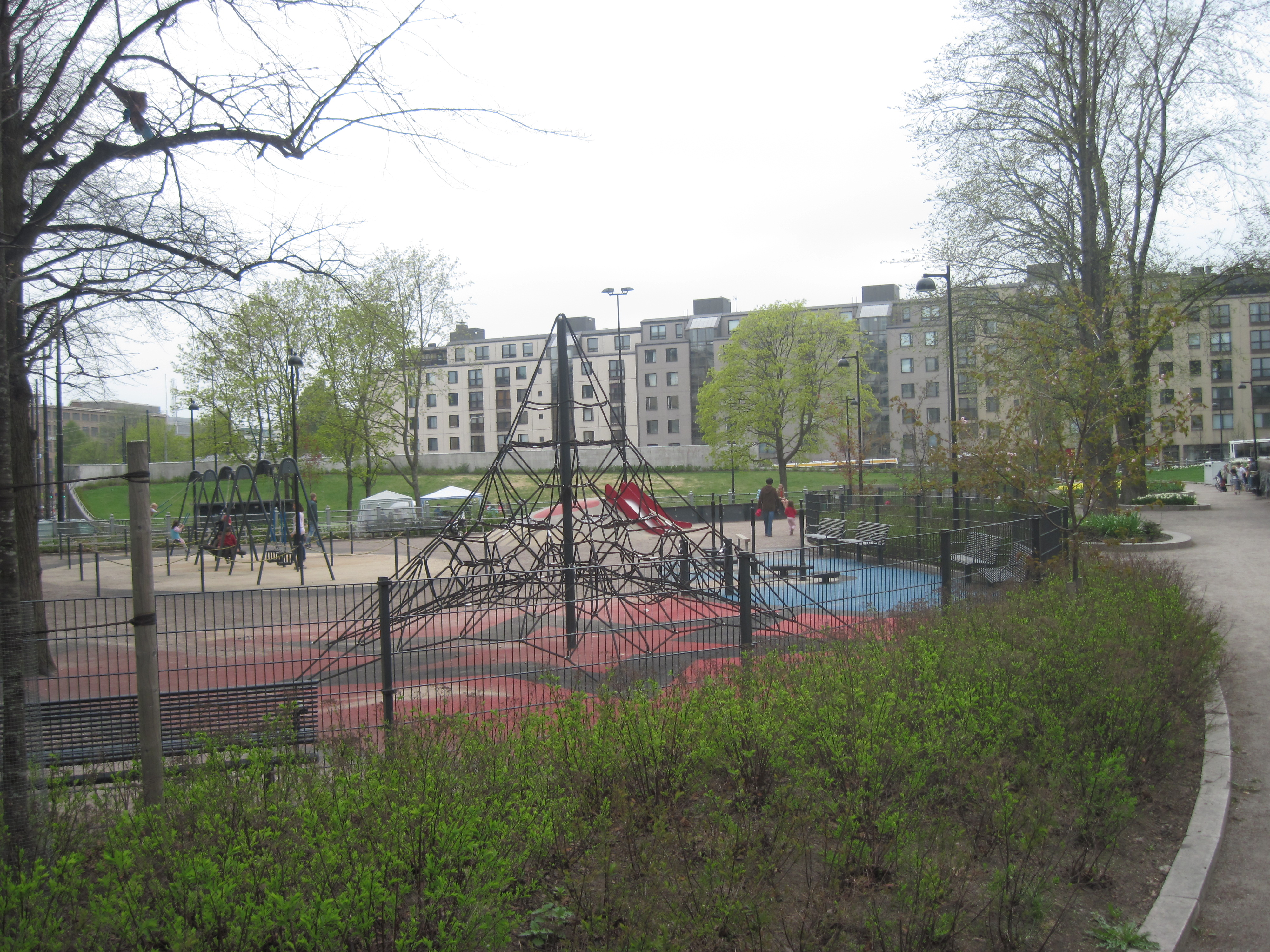 Lastenlehto Park in Helsinki, Finland, as seen from the corner of Lapinlahdenkatu and Ruoholahdenkatu